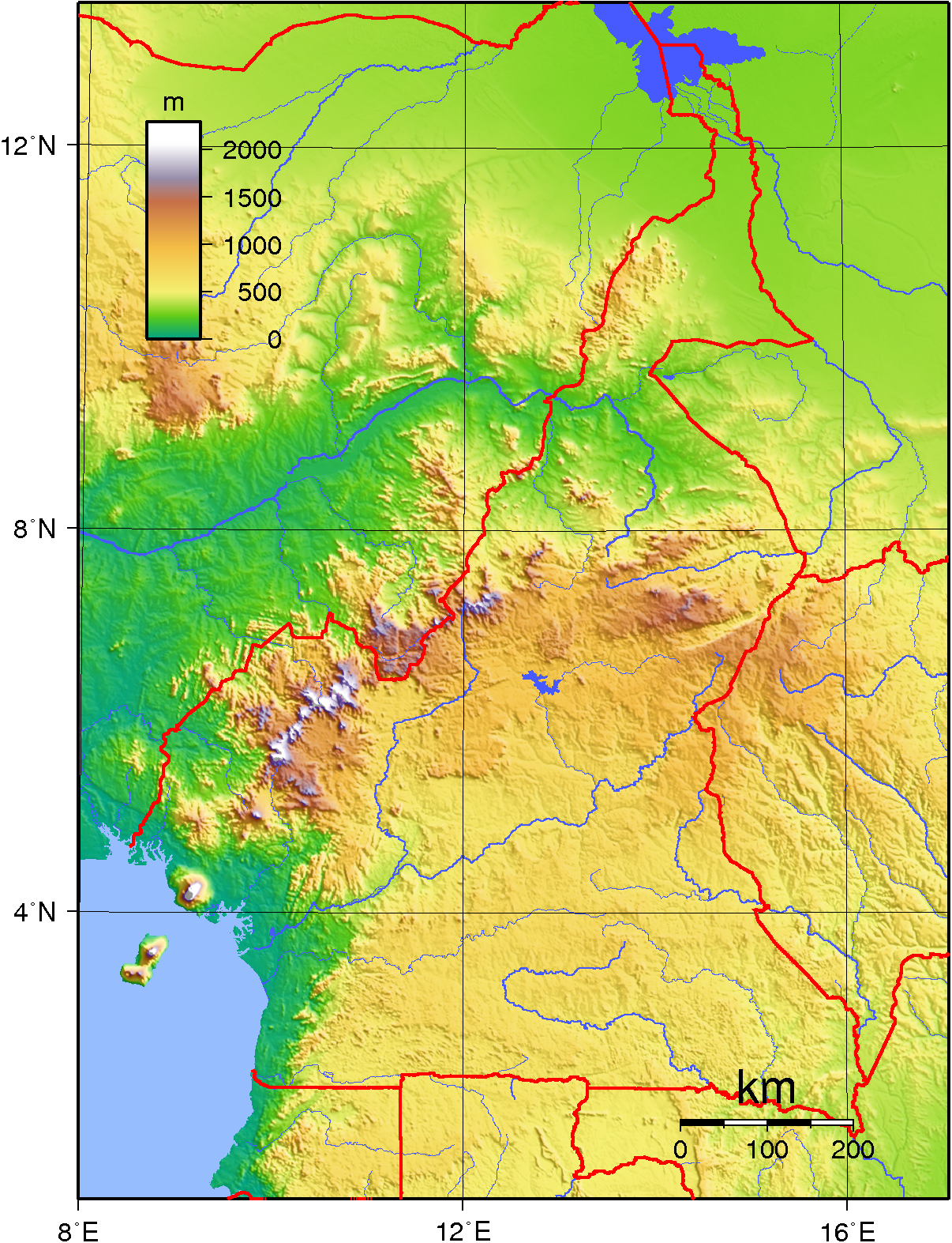 Topographic map of Cameroon. Created with GMT from public domain GLOBE data.